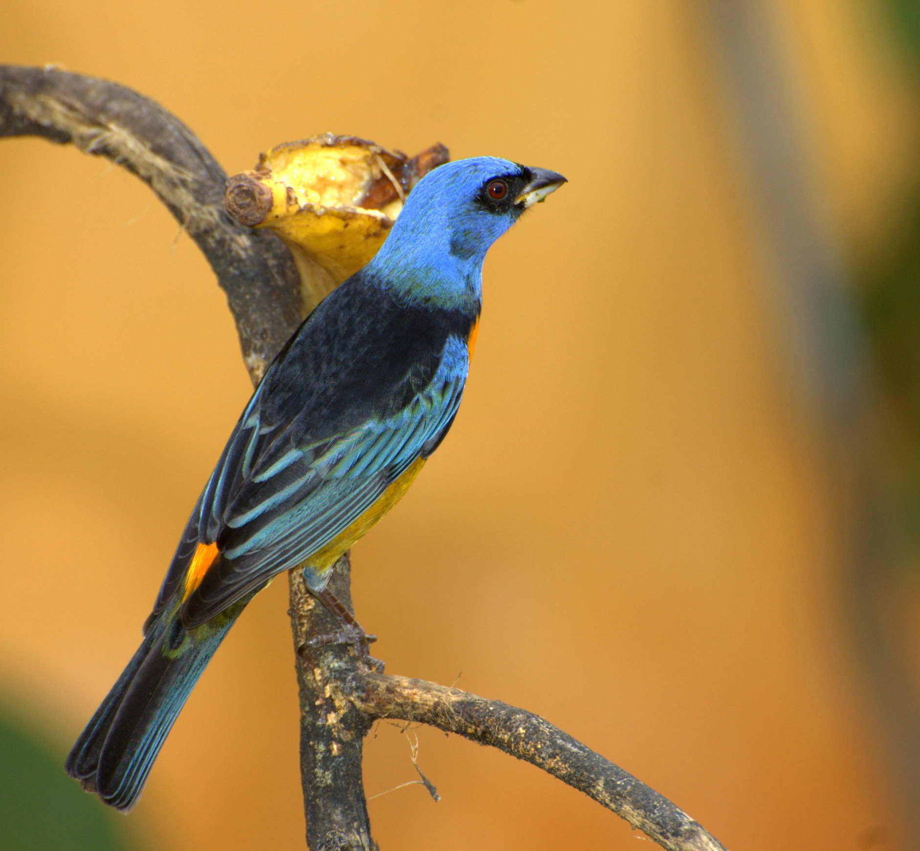 A Blue-and-yellow Tanager (Thraupis bonariensis), male